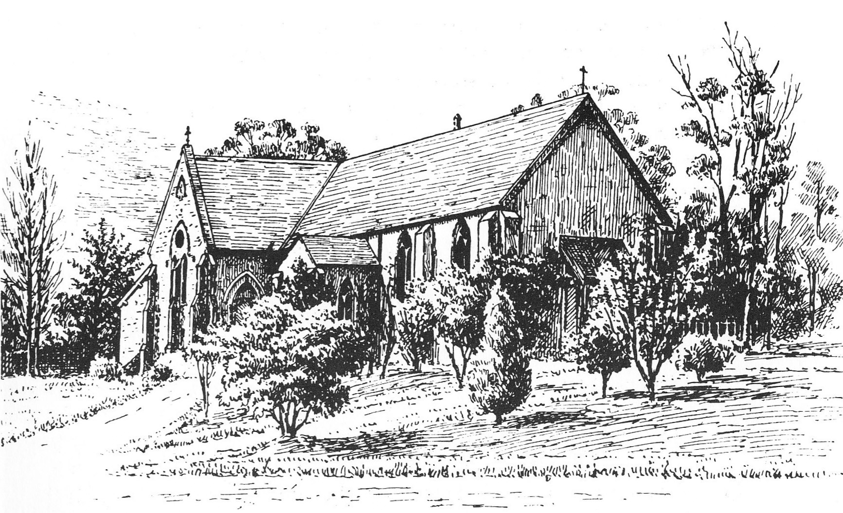 St John's Church, Ashfield. As it appeared in the 1880s. Since then a tower has been added (on the right hand side of this image).